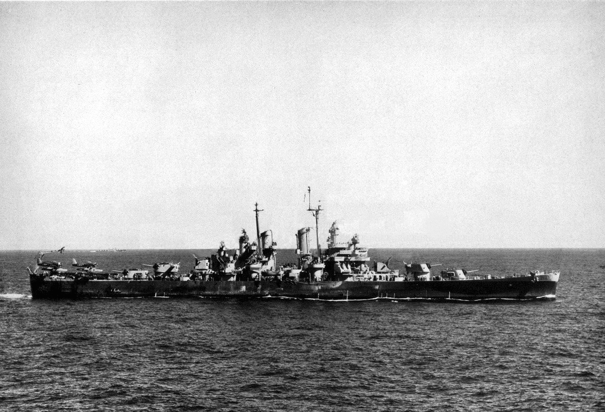 The U.S. Navy light cruiser USS Oklahoma City (CL-91) underway. She is painted in Measure 22 Camouflage.